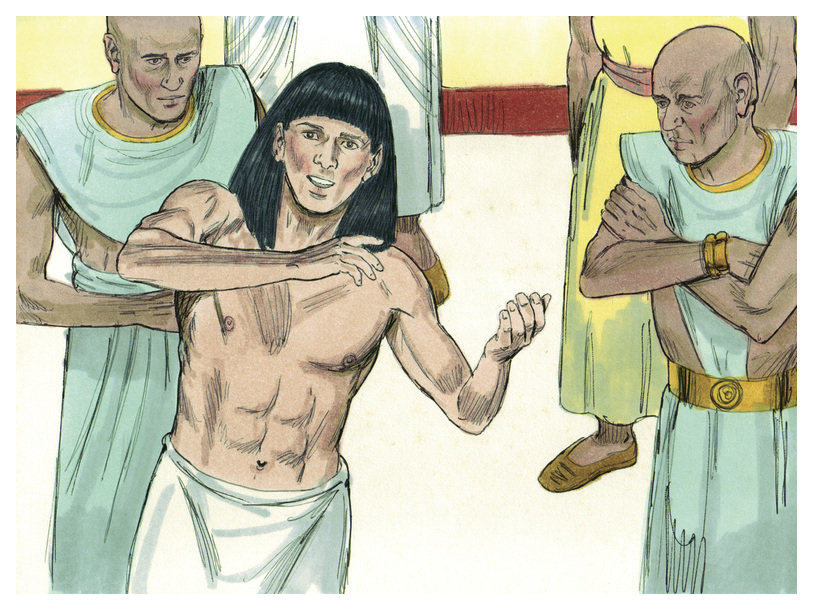 Biblical illustration of Book of Genesis Chapter 41